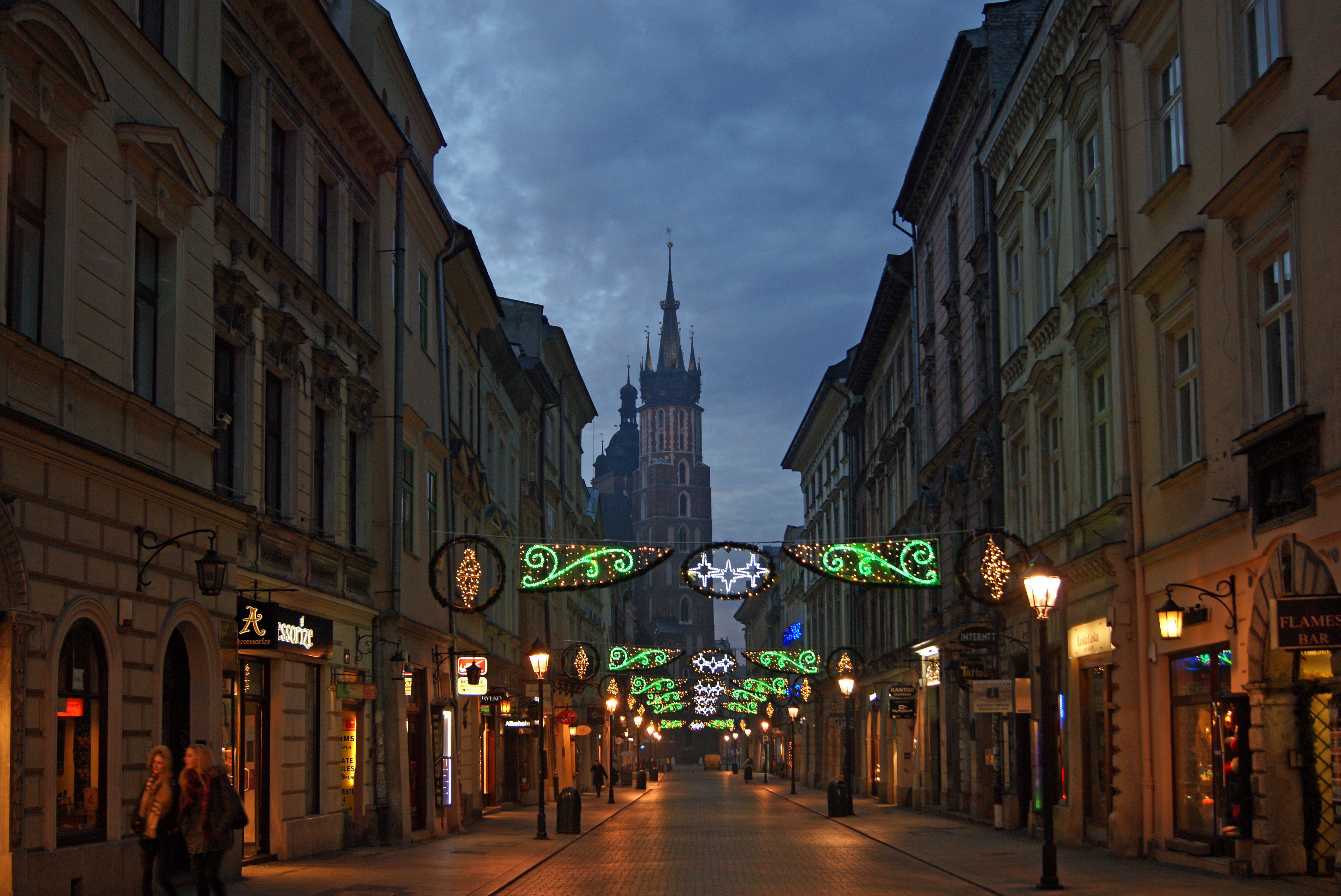 Florianska street, view from N, Old Town, Kraków, Poland